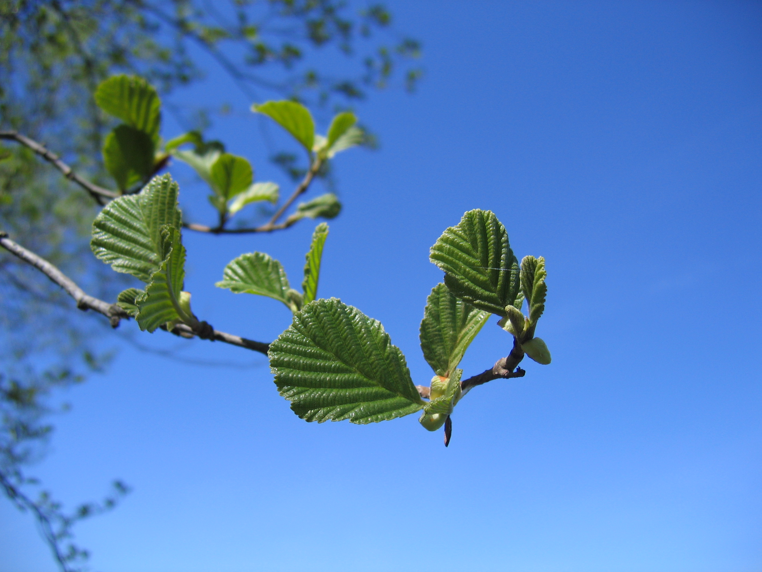 Black alder (Alnus glutinosa) leaves, Białowieża Forest, Poland.